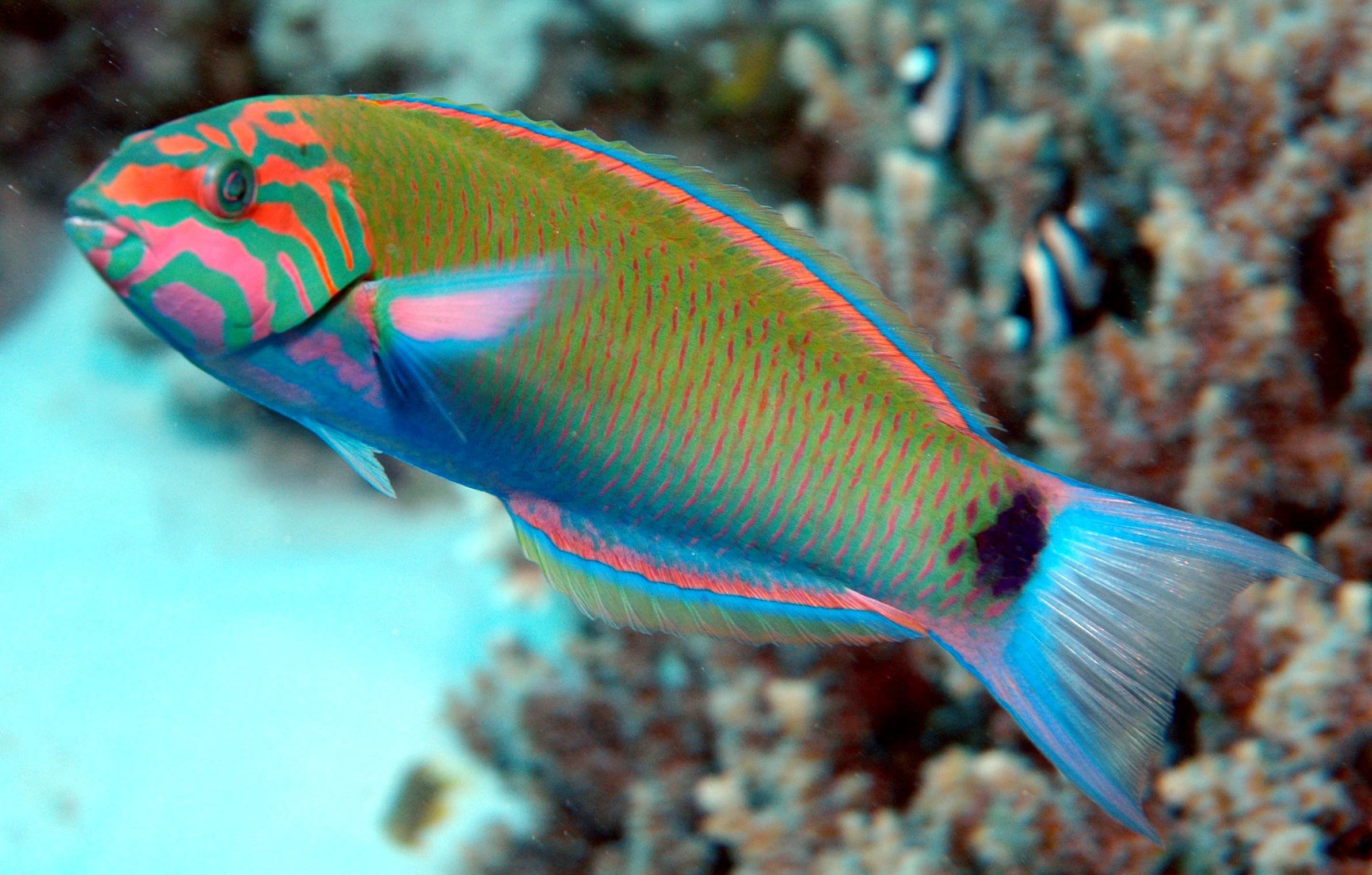 Thalassoma lunareGreat Barrier Reef, Cairns, Australia